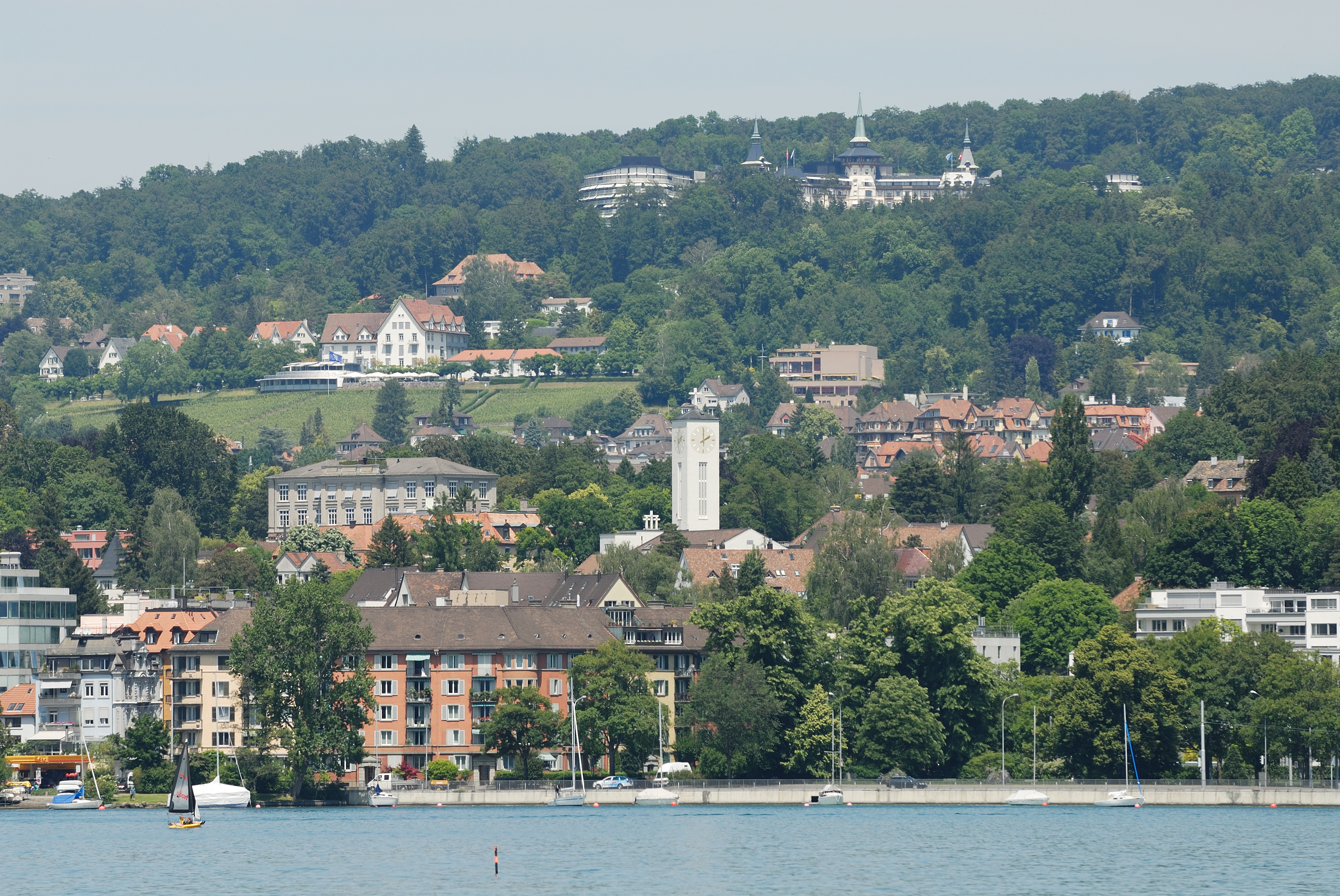 View of Riesbach from a boat on Lake Zürich. In the middle towards the left edge there is the Sonnenberg Convention Center, towards the top the Grand Hotel Dolder.